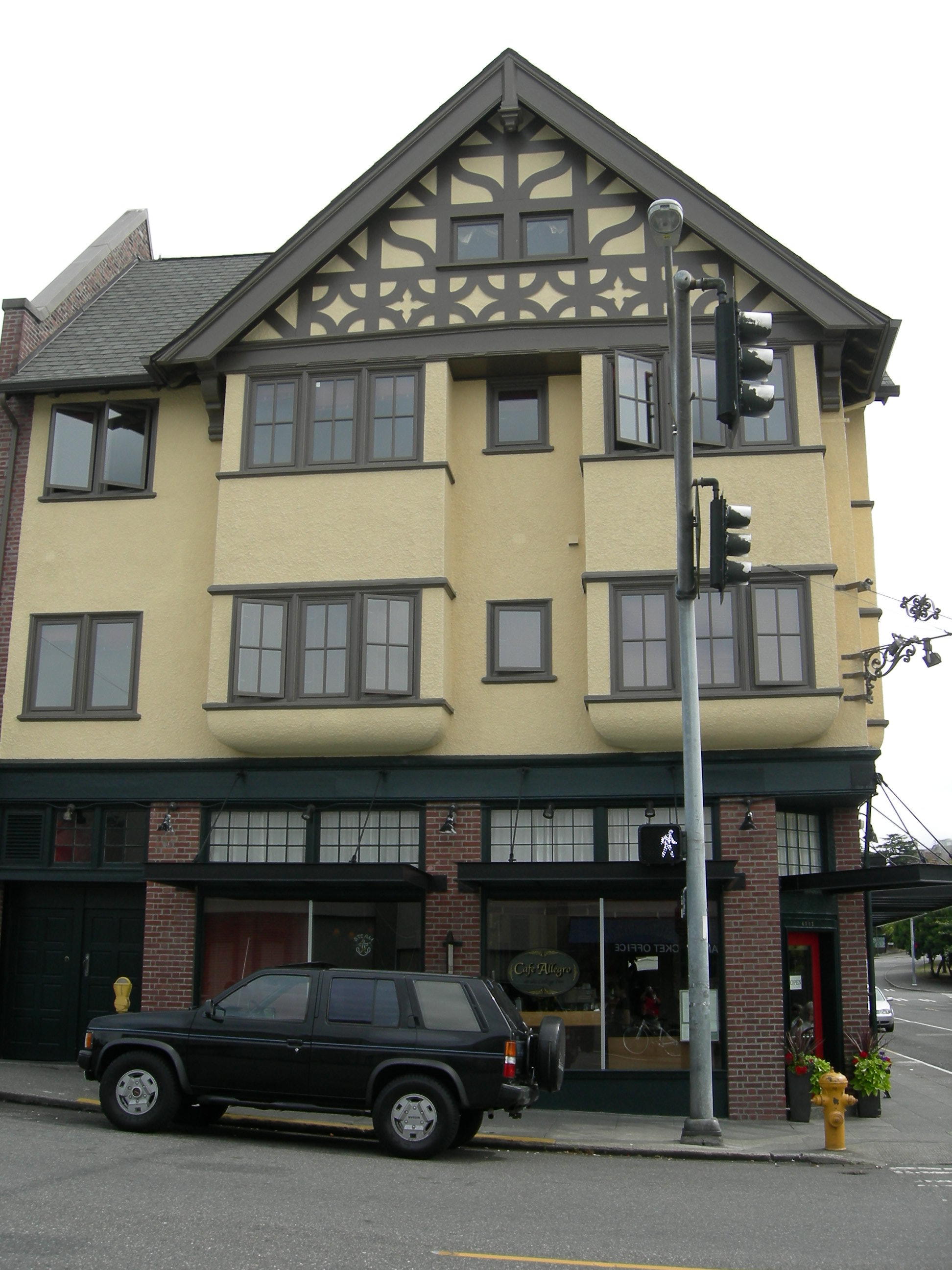 The College Inn / Ye College Inn, University District, Seattle, Washington. Designed by Graham and Myers, built 1910. Added to the National Register of Historic Places 1982, ID #82004256.